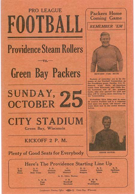 Game program - Providence Steam Rollers at the Green Bay Packers, October 25 1931 (the Packers won, 48-20)